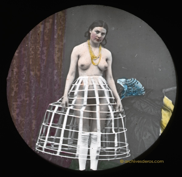 Erotic photograph by Auguste Belloc